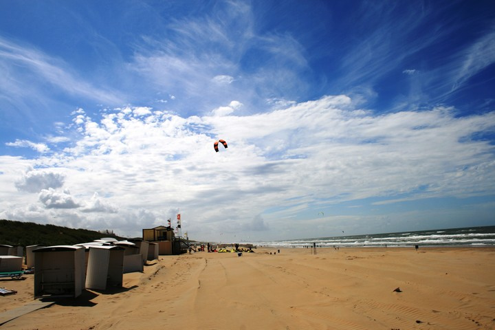 Katwijk aan Zee, The Netherlands